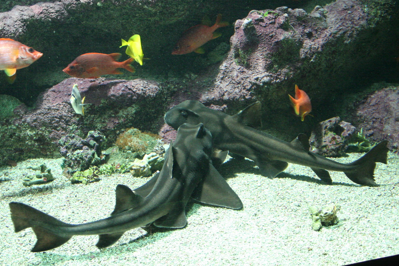 Heterodontus portusjacksoni (Port Jackson Shark) at Océanopolis, Brest, France. These are the black fish.